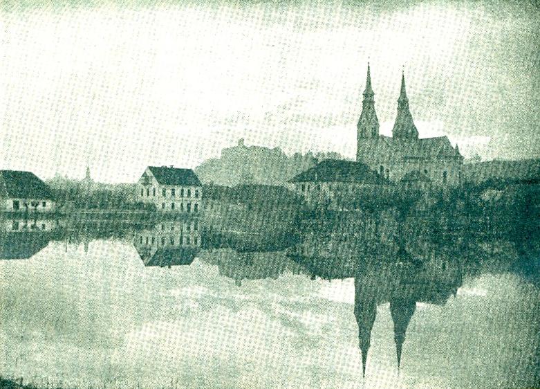 Kern, a marshy meadow in Trnovo, Ljubljana. It was flooded due to clay digging and later a sluice gate was added to a nearby river to deepen the water. In the winter, it was used for ice skating. The photo was made in 1912.